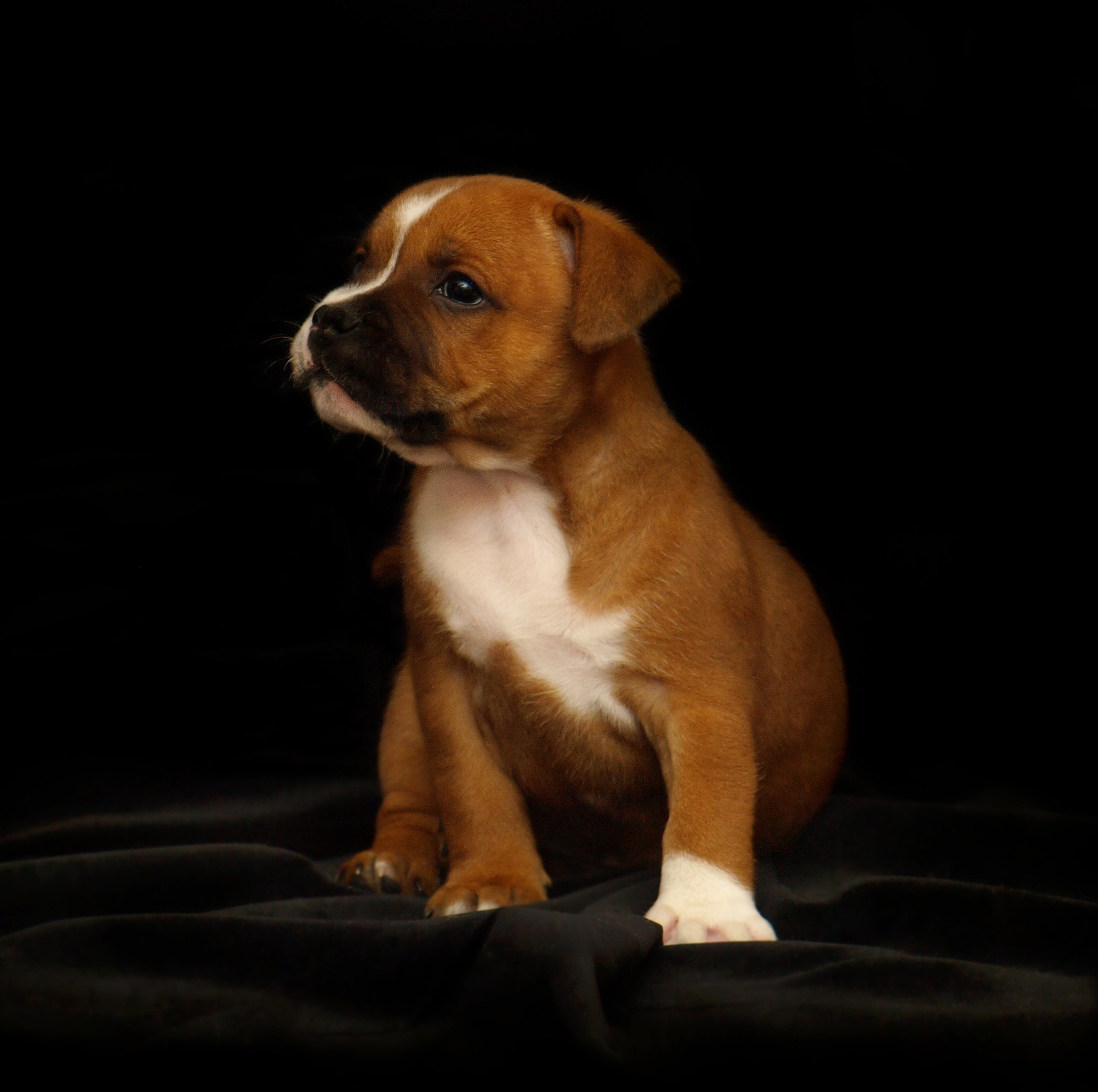 Staffordshire Bull Terrier puppy, red color with white markings, sitting posed